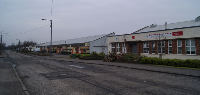 Montrose Avenue The building to the right is the Glasgow depot of Blythswood Care - a Scottish based Christian charity which helps the needy worldwide. Follow this for more information about Blythswood Care.